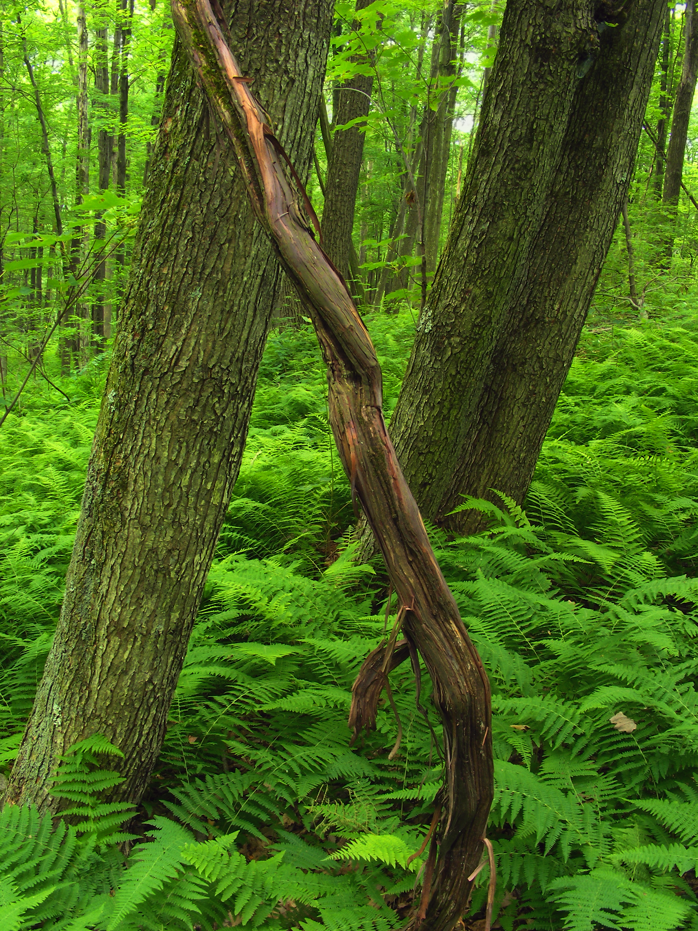 Deciduous forest, Tuscarora State Park, Schuylkill County.